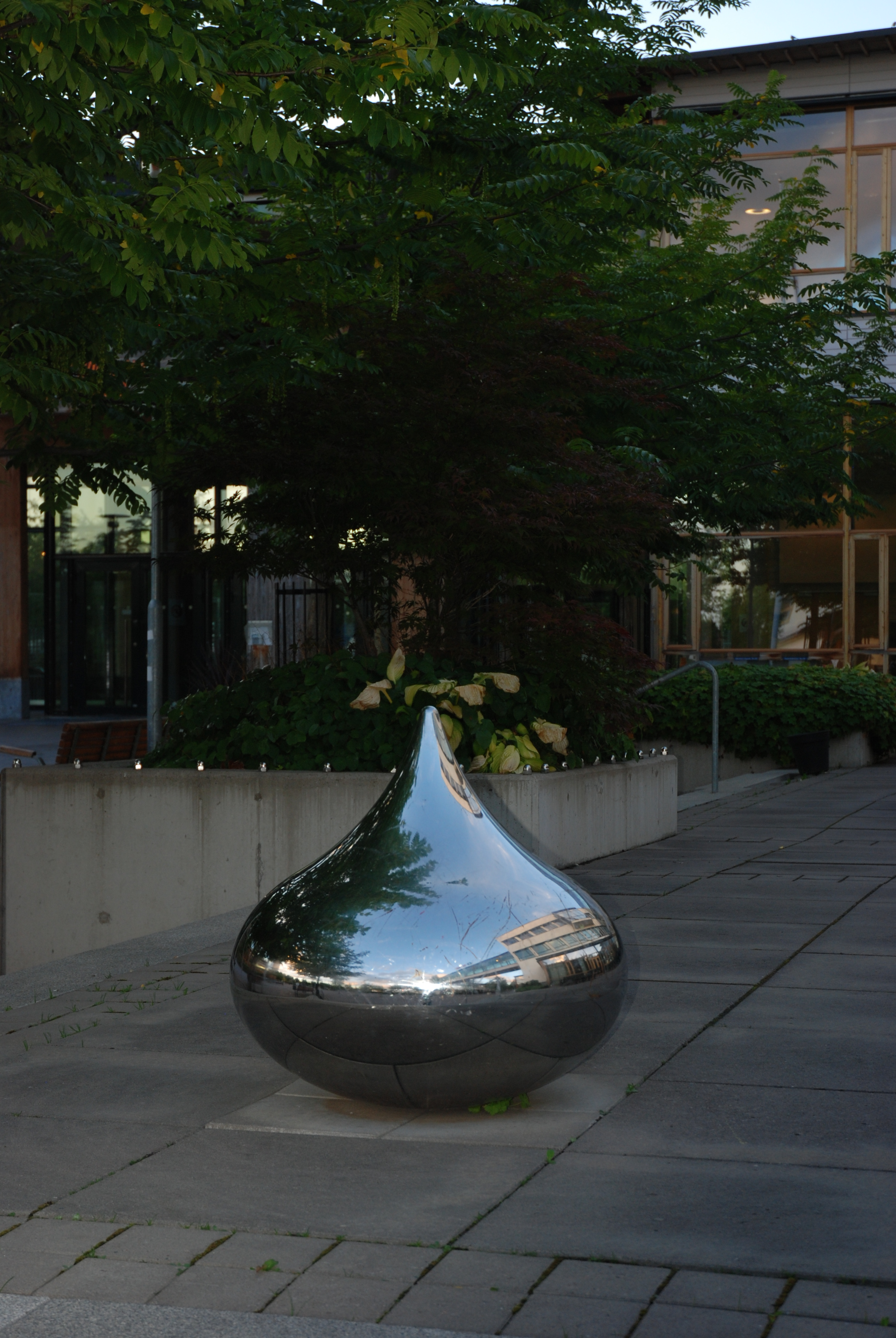 Anna Stake´s Droppe, rostfritt stål, part of Tell in three parts, Mälardalens högskola i Västerås